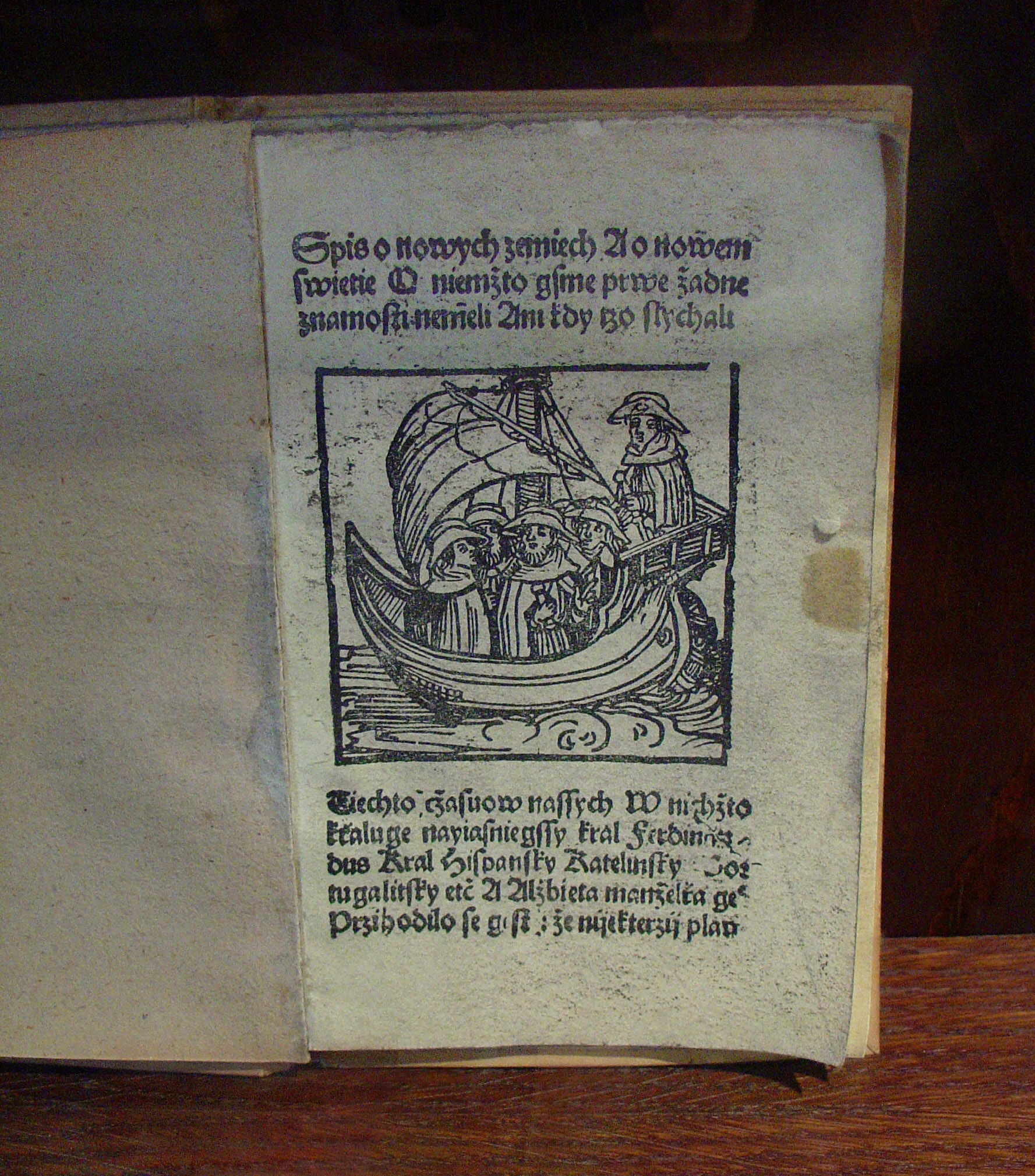 The book of the new earths. PLZEŇ, printed by MIKILÁŠ BAKALÁŘ in 1506. Is the oldest description of the voyages of Christopher Columbus. Exposed in Strahov monastary's library, Prague.